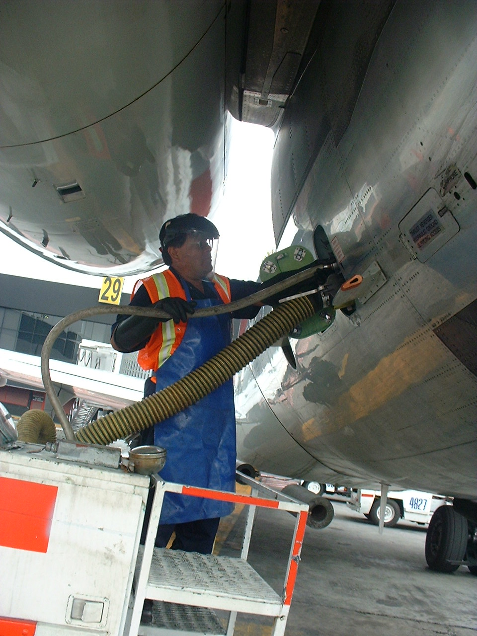 Servicing of the waste water on an American Airlines MD-80 at Mexico international airport